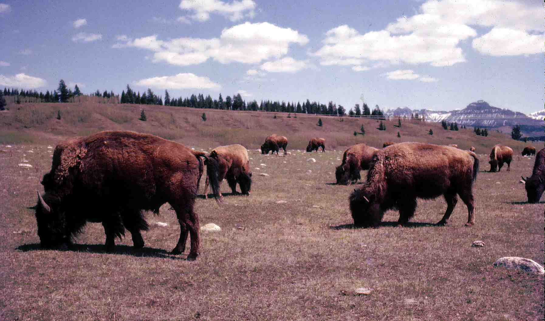 Bison feeding.